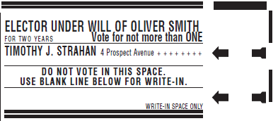 portion of the general election ballot of GREENFIELD, MASSACHUSETTS, November 2015